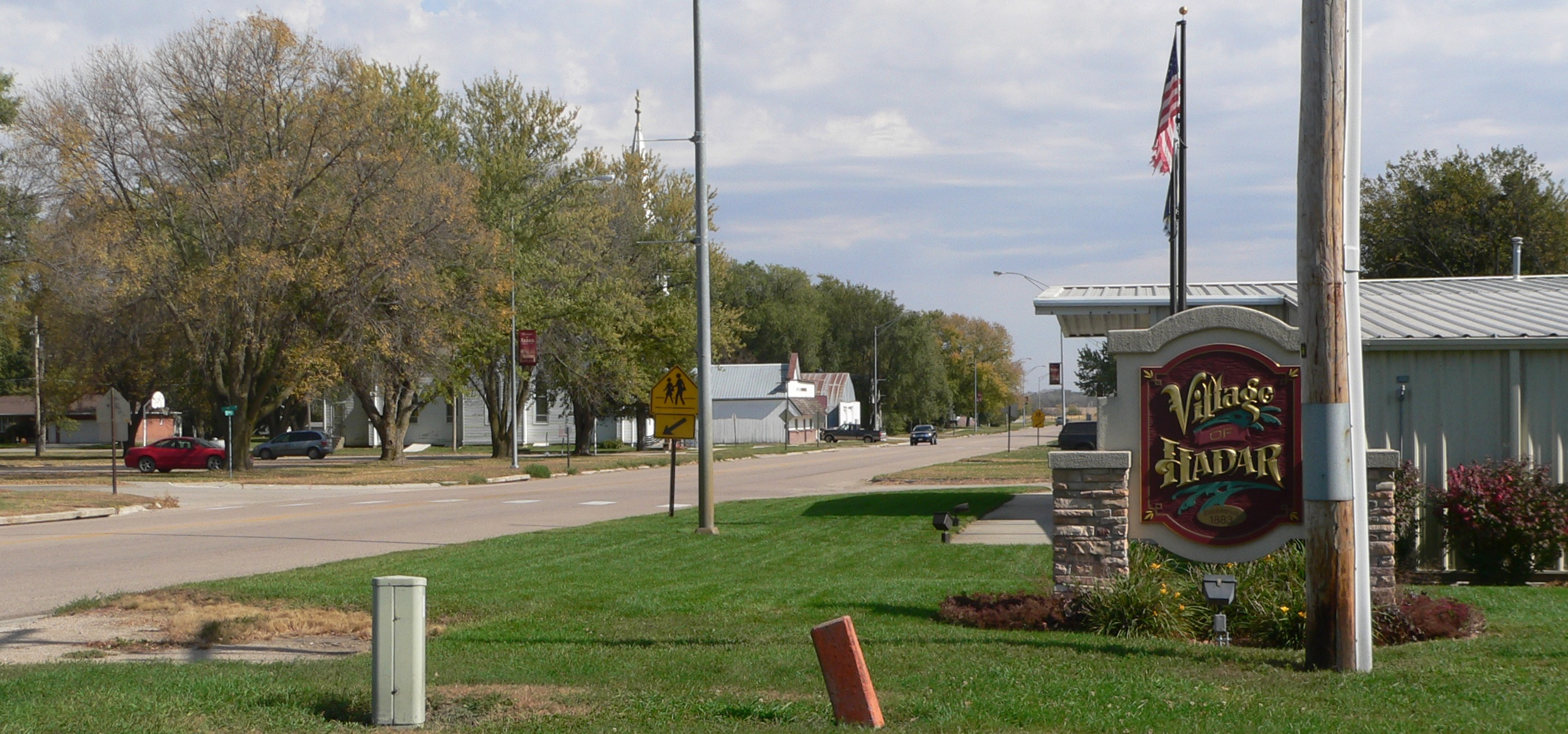 Downtown Hadar, Nebraska: Main Street (Nebraska Highway 13), looking northeast from about Front Street.